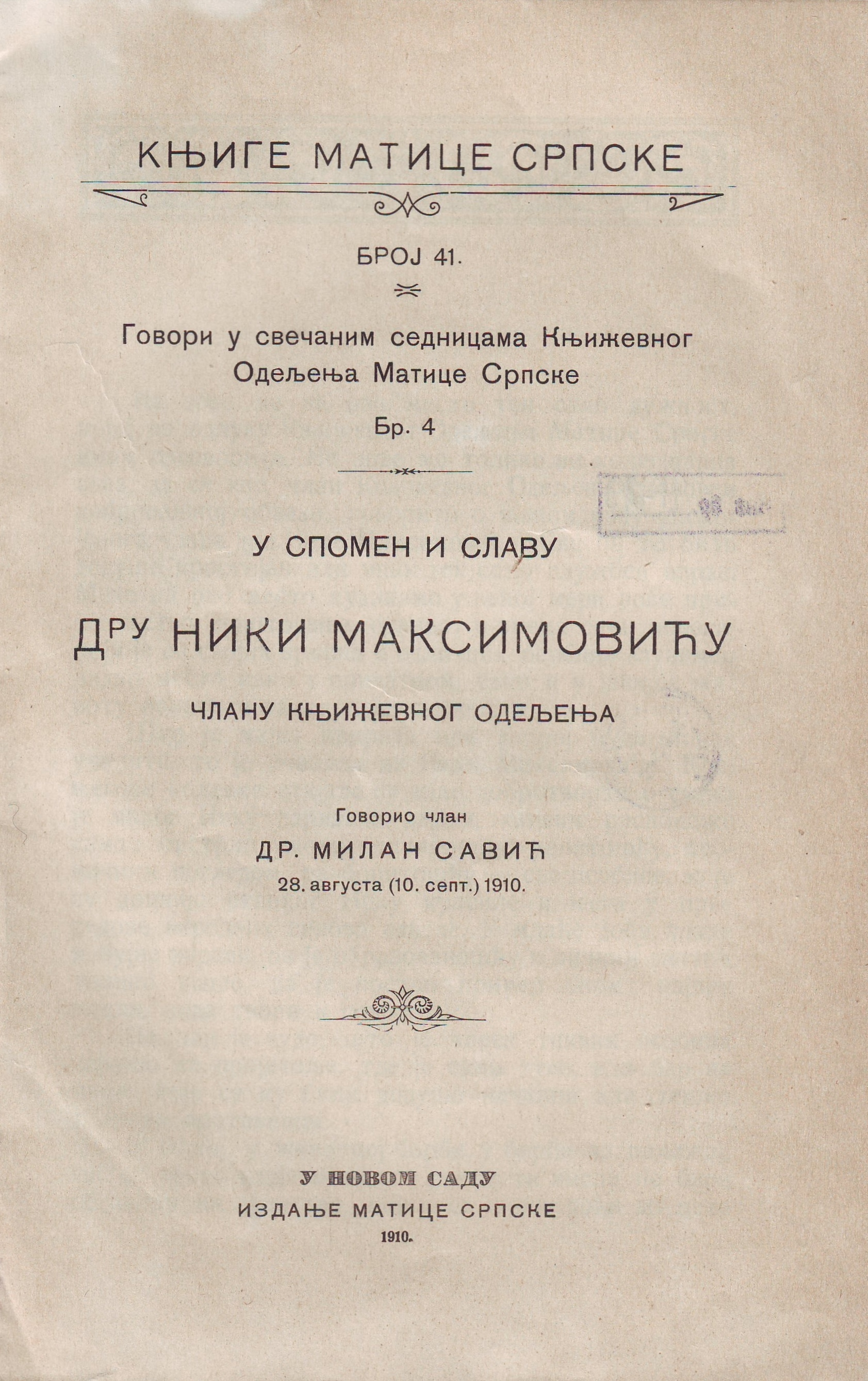 Speech by Dr Milan Savić, dedicated to the late member of the Literary Department of Matica Srpska, Dr Nikola Nika Maksimović. Srpski (latinica): Govor dr Milana Savića posvećen pokojnom članu Književnog odeljenja Matice srpske dr Nikoli Niki Maksimoviću.